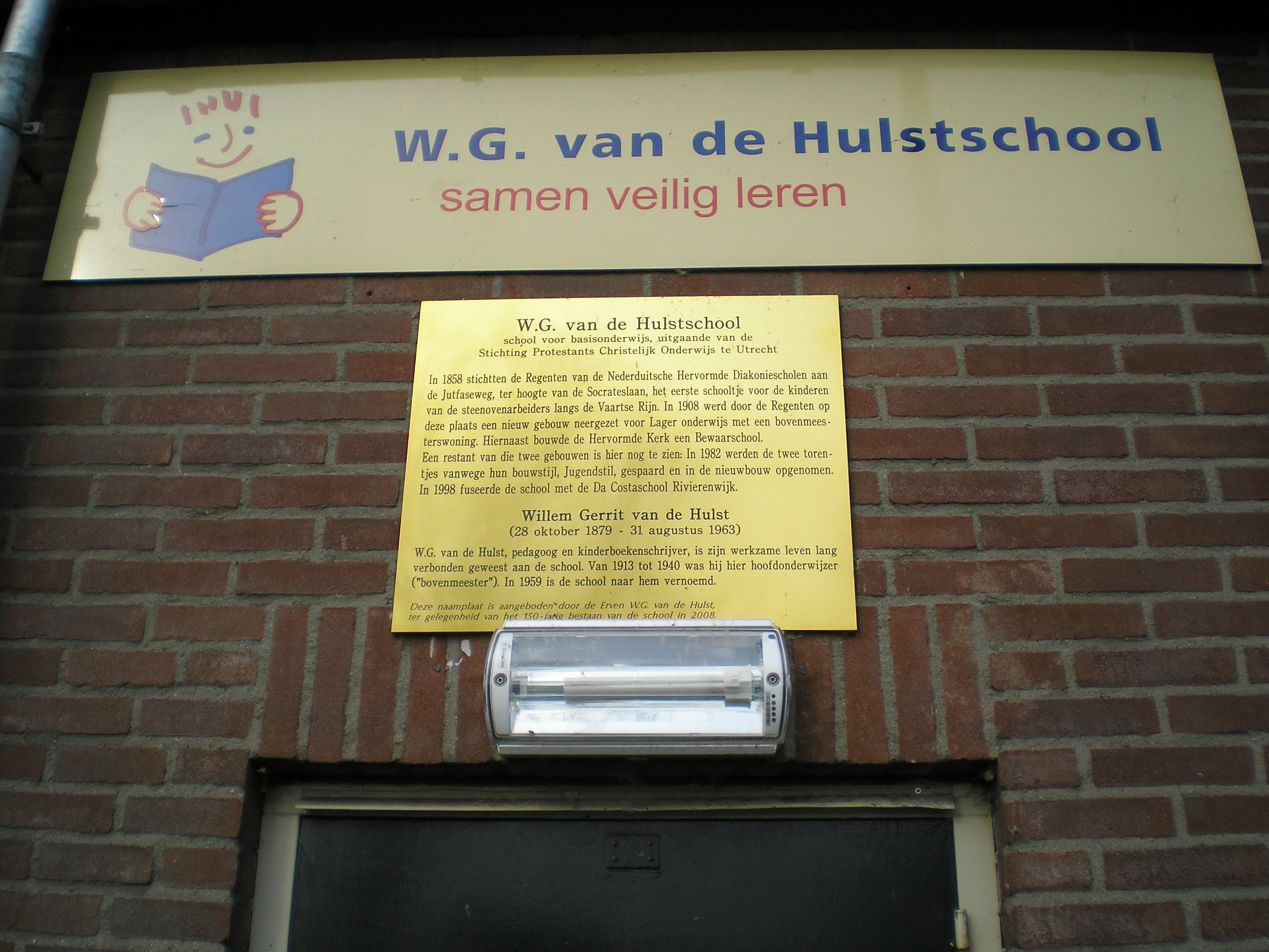 Legend plate W.G. van de Hulst School Jutfaseweg 138-139 in Utrecht in the Netherlands